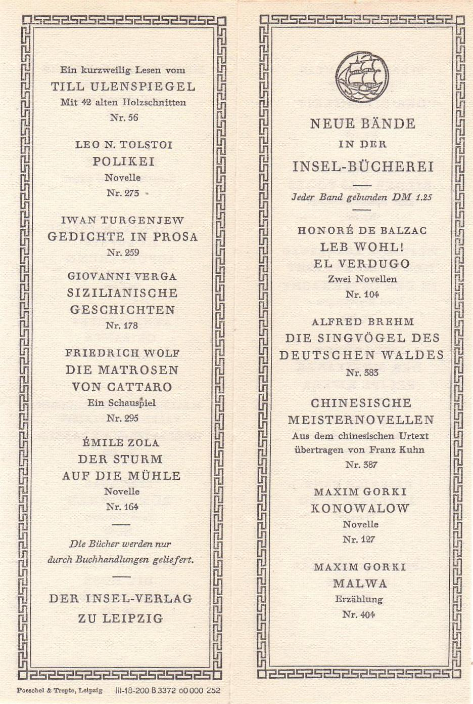 Promotional Flyer for the Insel-Bücherei,Lepzig 1952, frontside